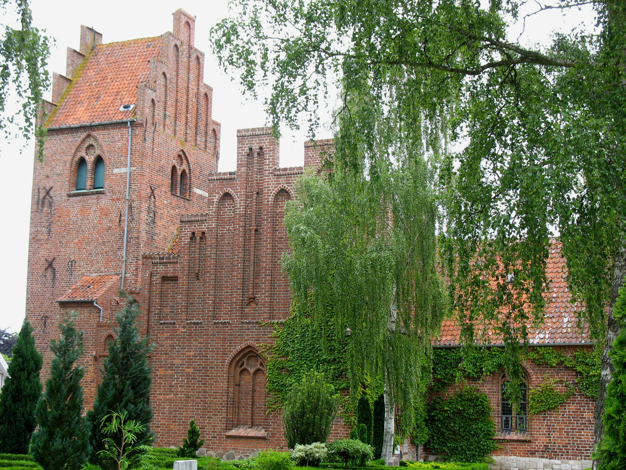 The church "Haslev Kirke" in the town "Haslev". It is located in South Zealand in east Denmark.